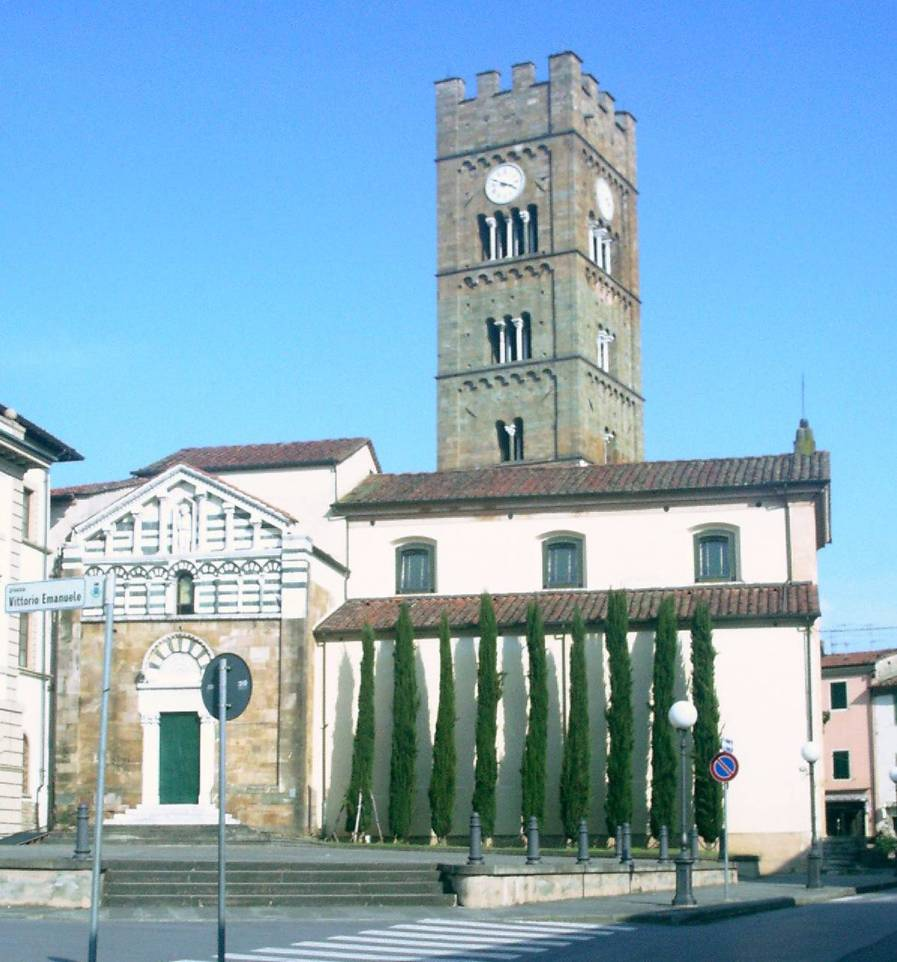 Church San Jacopo Maggiore (Saint James the Greater) in Altopascio, Lucca, Toscany